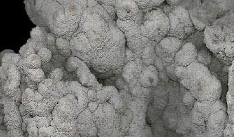 Travertinen, Ľubochnianska valley, Veľká Fatra, holocene